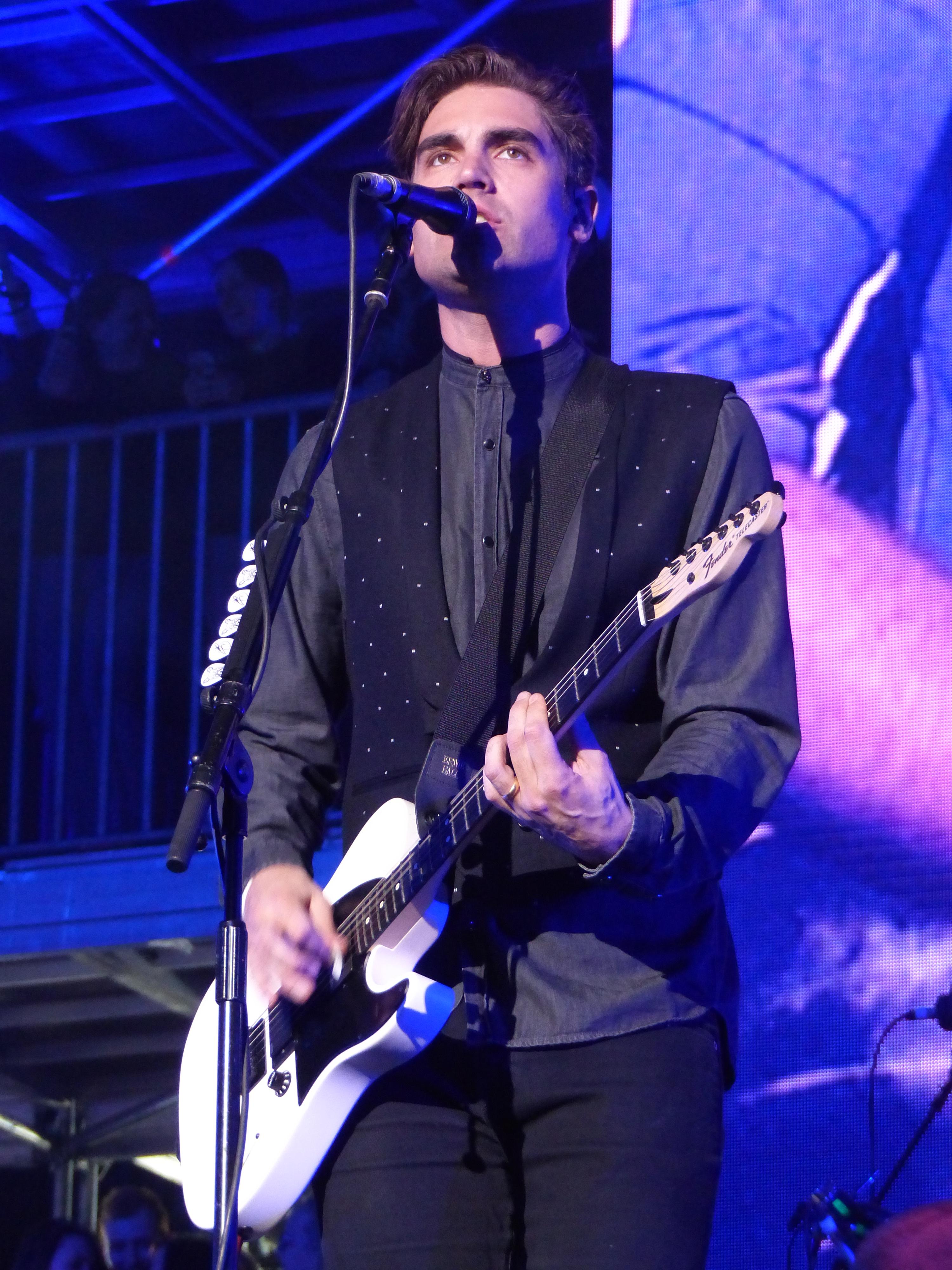 Charlie Simpson performing at the Manchester Arena, 2016